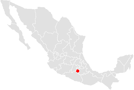 A map of the Mexican state of morelos made by me